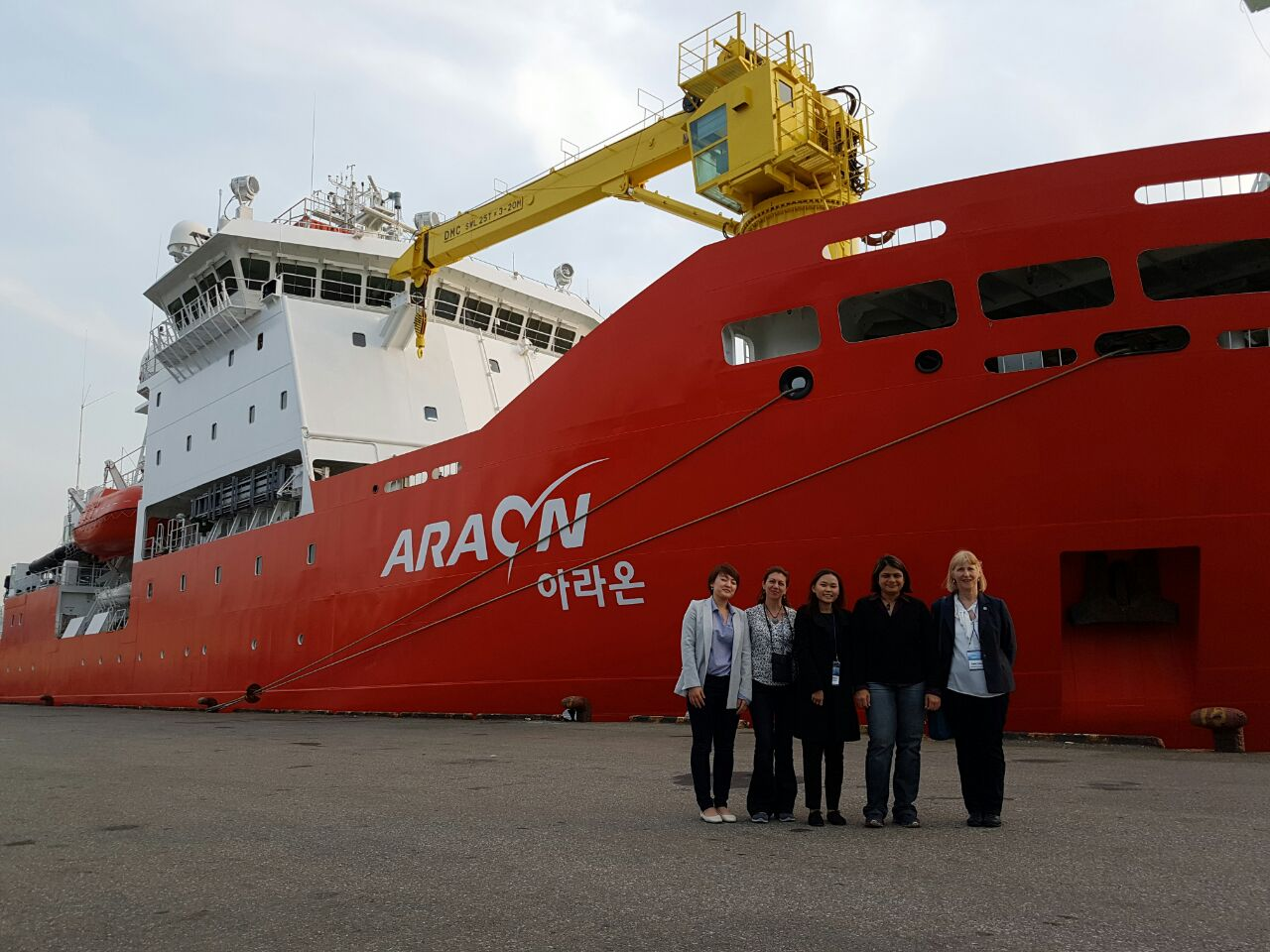 RV Araon and in front women delegates in Asian Forum For Polar Sciences Annual General Meeting 2016 - Seoul/South Korea